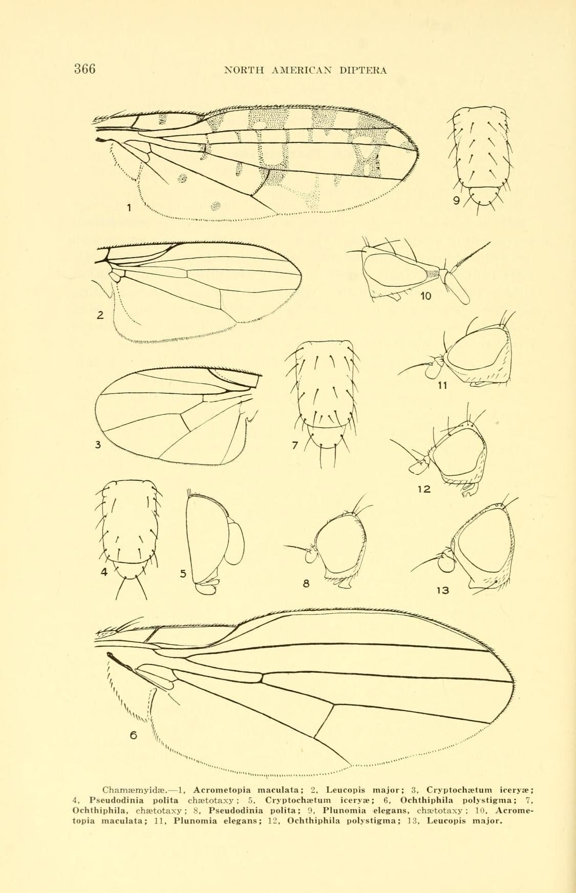 Charles Howard Curran , 1934 The families and genera of North American Diptera C.H. Curran in [New York] . Chamaemyiidae Illustration from S.W. Williston Manual of North American Diptera (1888, 1896, 1908